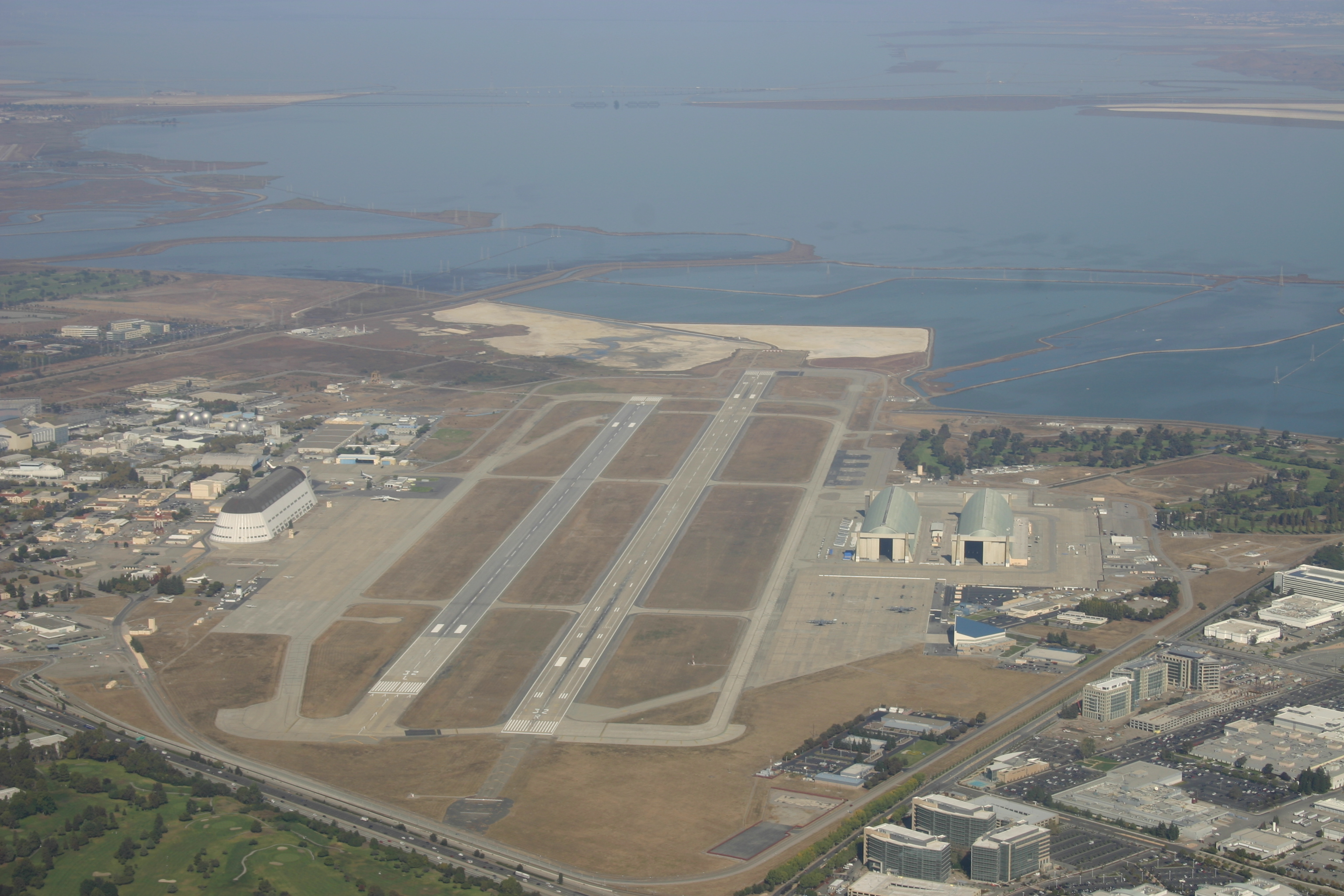 Aerial photo of Moffett Federal Airfield, with its immense historic hangers— located in Mountain View, California.